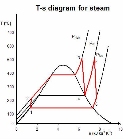 This is a T-s diagram for a Rankine cycle with reheat. The compression and expansion processes are isentropic